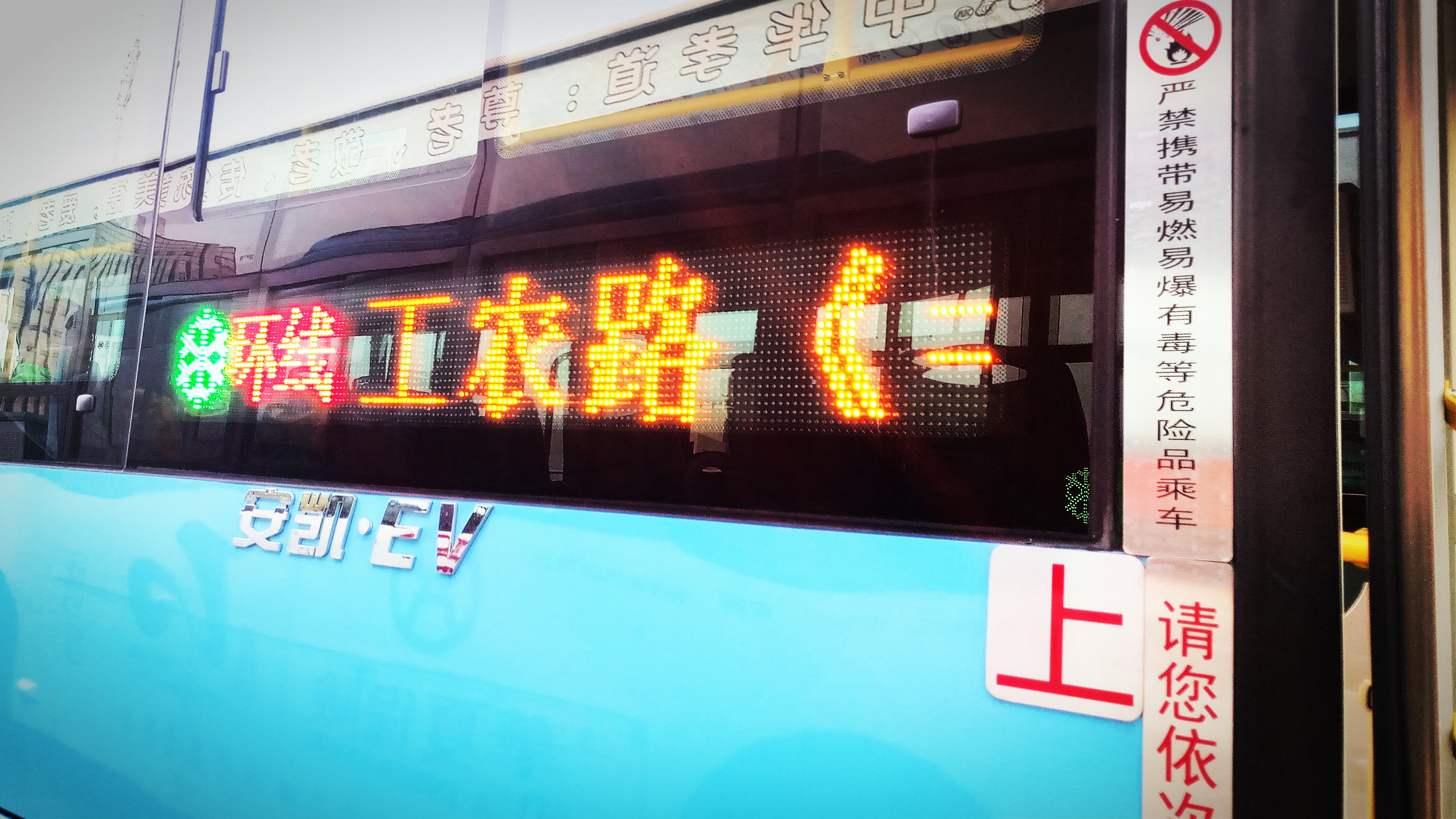 Bengbu Bus Roop Line No.1 LED